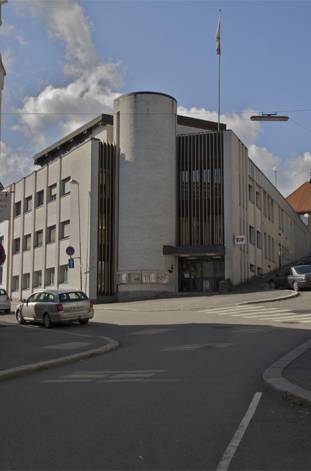 Building in Skien, Norway. Address: Telemarksgata 11. Head office for the newspaper "Telemarksavisa"